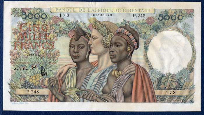 French West Africa 5000 Francs banknote of 1950 Bank of West Africa - Banque de L'Afrique Occidentale.